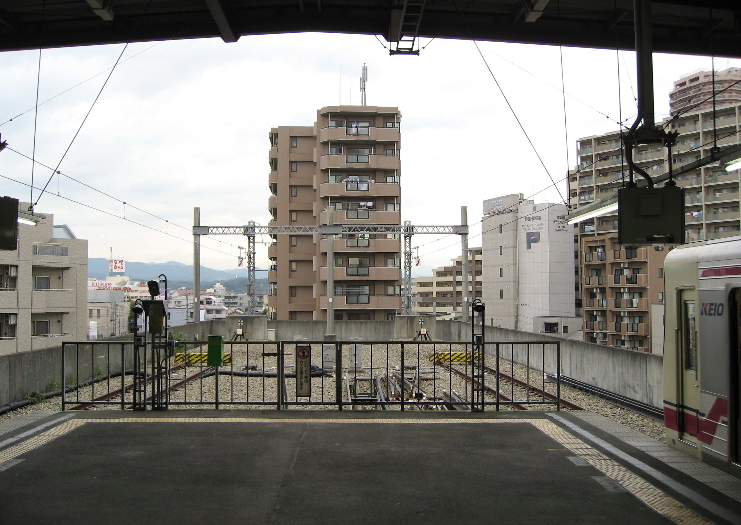 The west end of Keio-Sagamihara Line in Hashimoto Station, Sagamihara, Kanagawa, Japan.